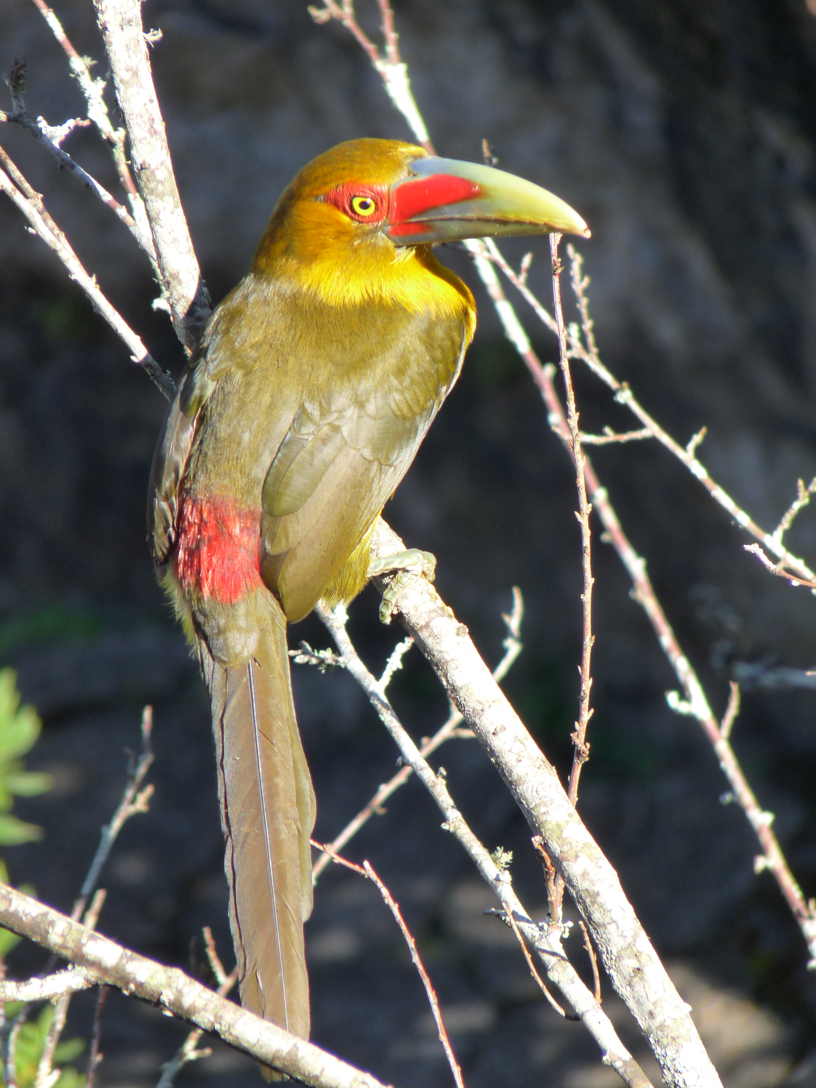 Saffron Toucanet